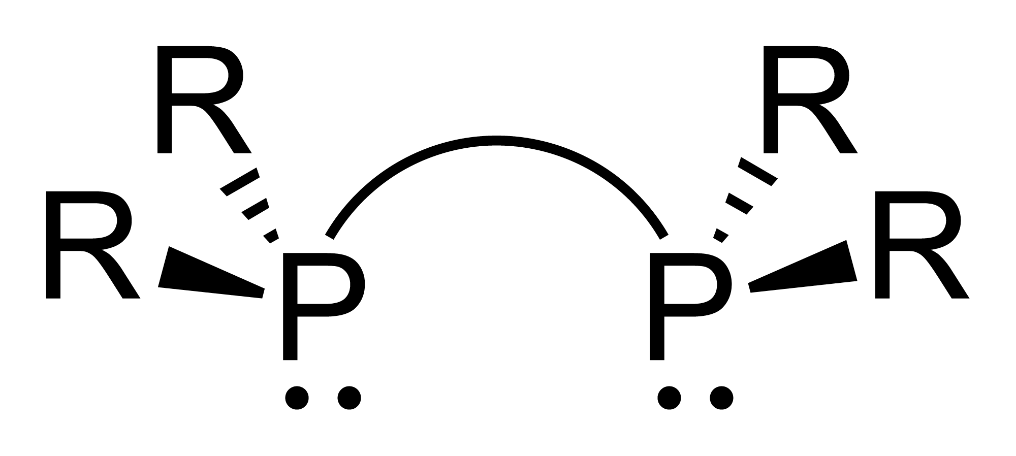 Skeletal formula of a generic diphosphine ligand. Image generated in ChemBioDraw Ultra 12.0.